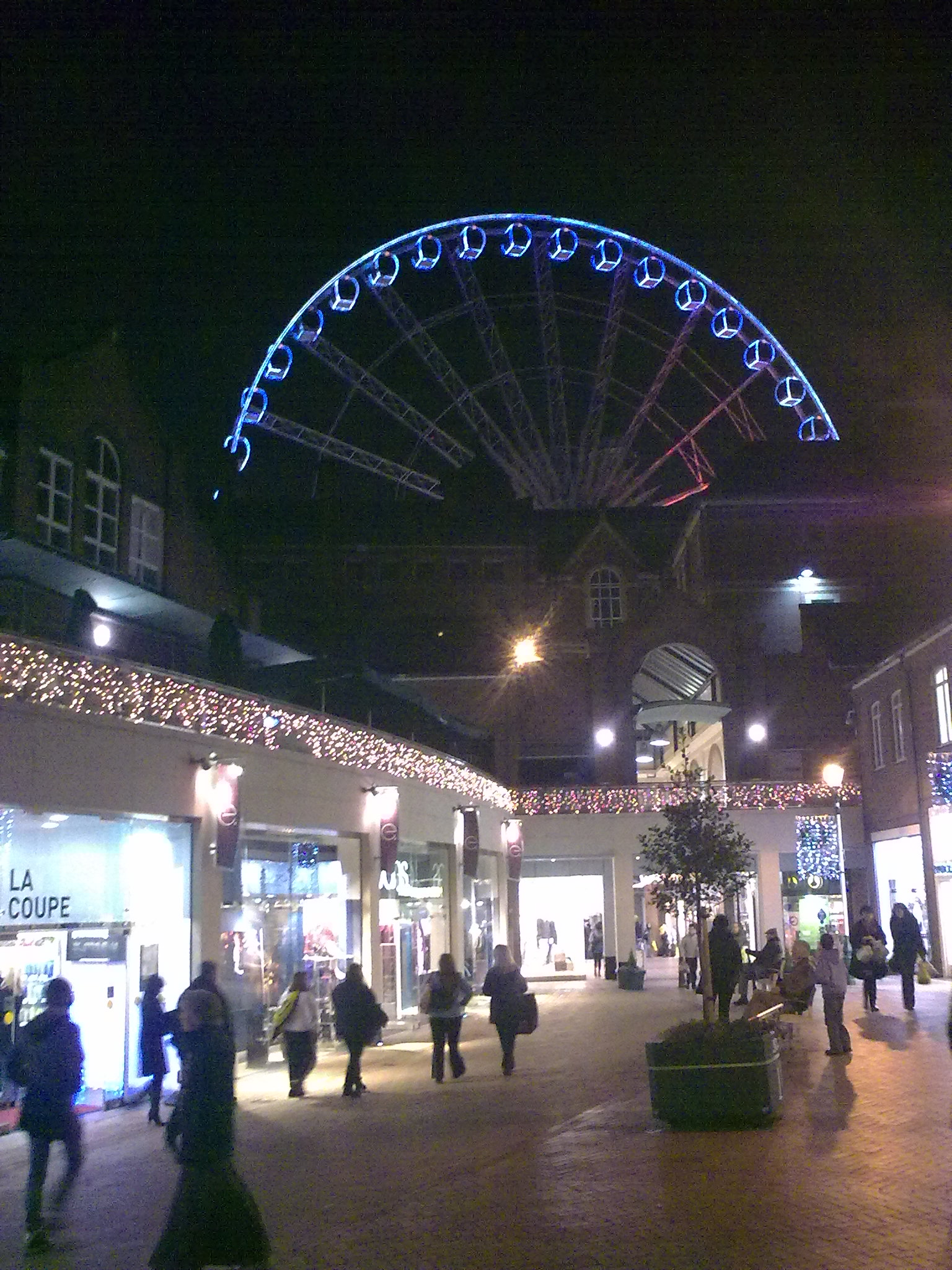 Orchard Square shopping centre, Sheffield, UK. Visible is the main administrative building, with the shopping precinct in front of it and the Wheel of Sheffield behind it.